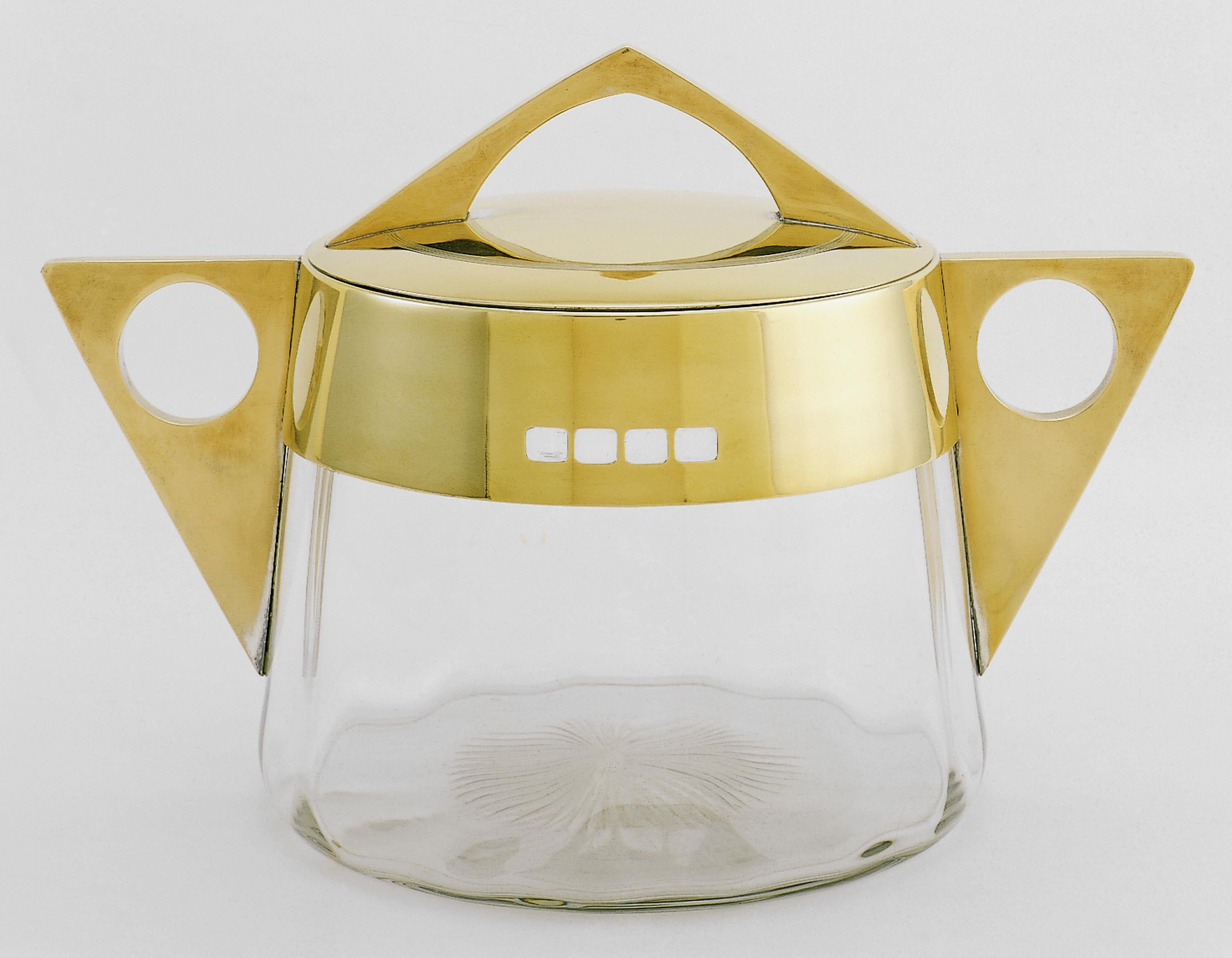 Gisela Falke von Lilienstein, Austrian, born 1871; Argentor; Covered tureen; c. 1902; Brass, cut glass; 12 x 17 3/4 x 10 7/8 in. (30.48 x 45.09 x 27.62 cm) (to handles); Minneapolis Institute of Art; The Modernism Collection, gift of Norwest Bank Minnesota 98.276.22a,b